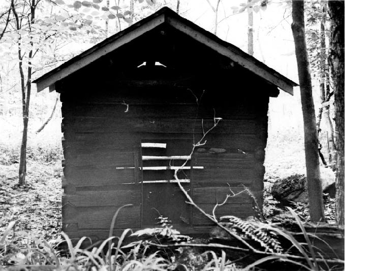 The springhouse at the Tyson McCarter Place in the Great Smoky Mountains National Park of Sevier County, Tennessee, USA.